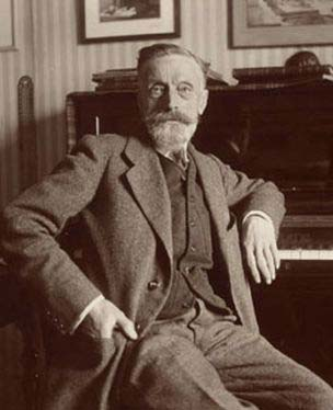 Photography in 1887 of the painter Hillemacher in his home